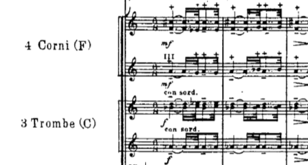 picture of the 1st bars of the 2nd movement of the Symphonic Dances by Rachmaninoff, edited by Moscow: Muzgiz, 1961.